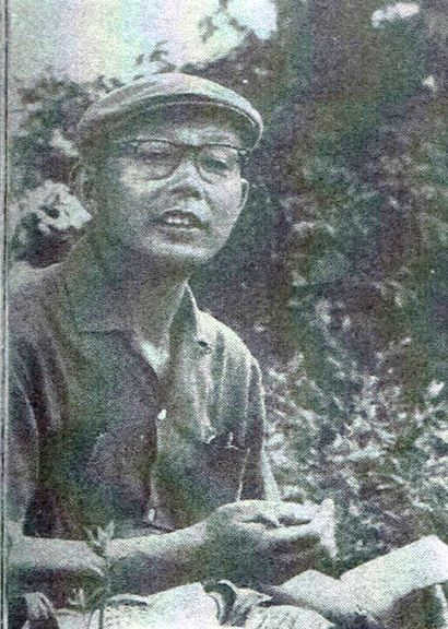 Kenjiro Morinaga